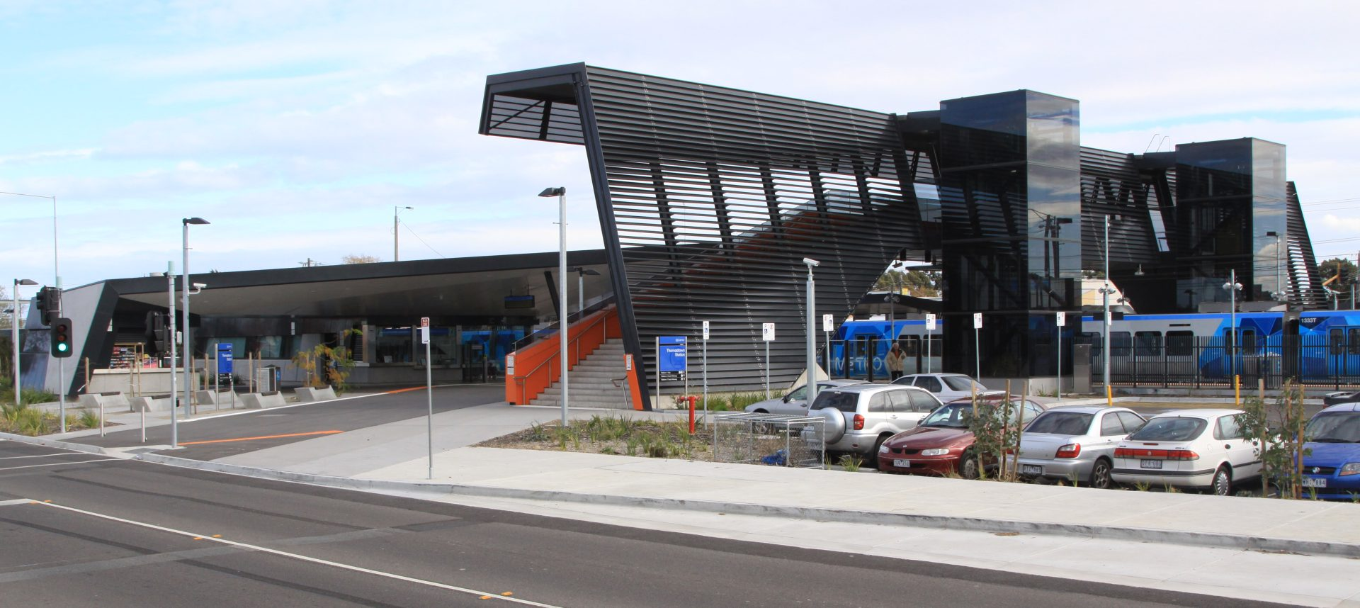 Eastern side of Thomastown railway station, Melbourne showing the station building on platform 1 and the pedestrian overpass. A Metro Trains liveried XTrapolis train is in platform 2.